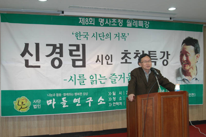 Shin Kyung-rim, one of best-known poets in South Korea. In a special lecture conducted by Roh HoeChan